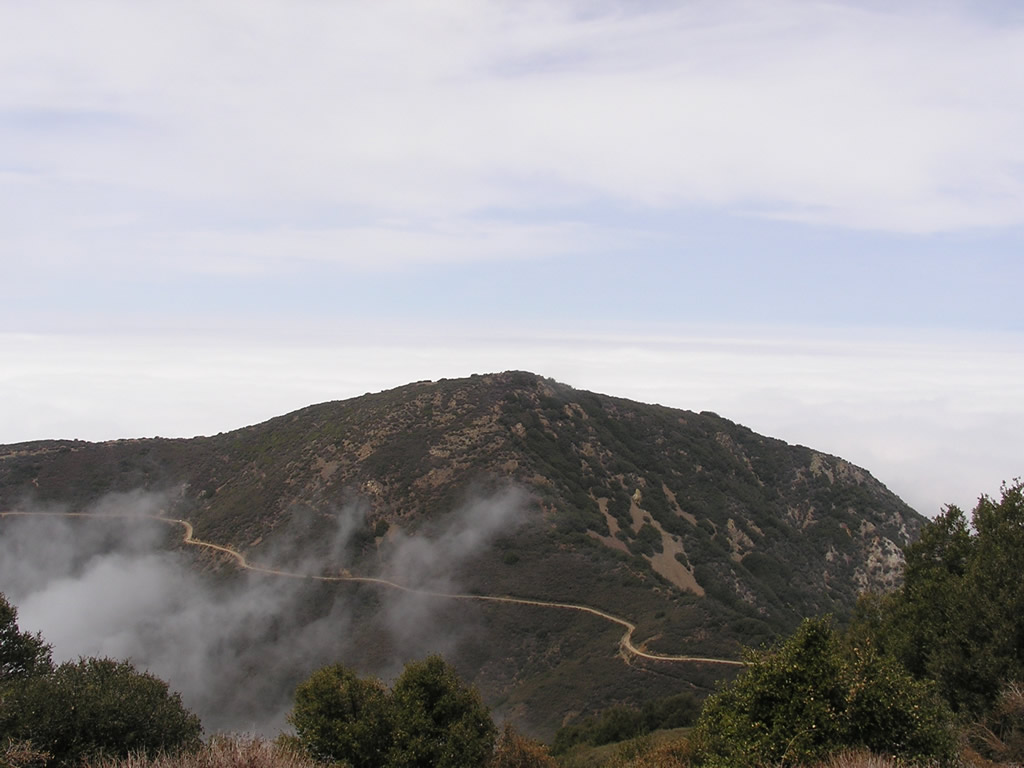 Modjeska Peak in the Santa Ana Mountains, draped in low clouds. Seen from neighboring Santiago Peak, Orange County, California.